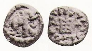 Coin of Zoilos II From "Coins of the Indo-Greeks", Whitehead, 1914 edition, Public Domain.